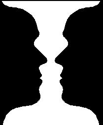 An optical illusion that demonstrates the figure-ground switches